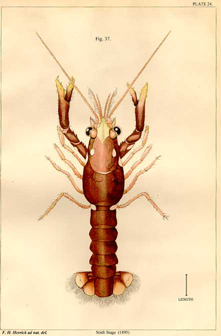 Plate from "The American Lobster: A study of its habits and development" - Bureau of Fisheries 1895